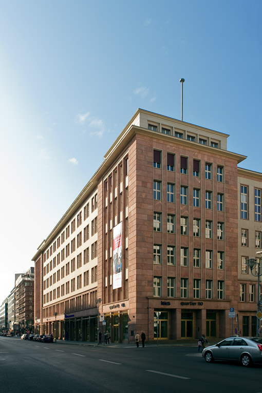 the Hertie School of Governance in Berlin's Friedrichstraße